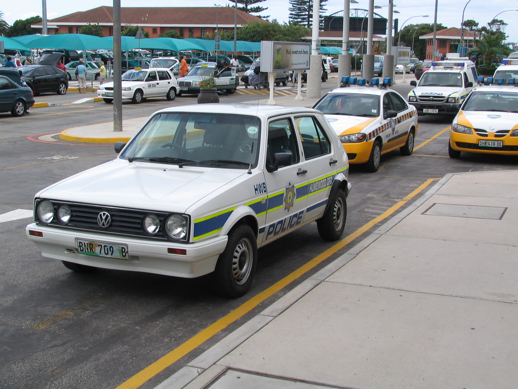 Volkswagen Citi Golf as police car in South Africa. The vehicle carries the markings of Humewood Police Station in central Port Elizabeth. The two yellow vehicles following it are from the Nelson Mandela Bay Metro (traffic) Police Department.